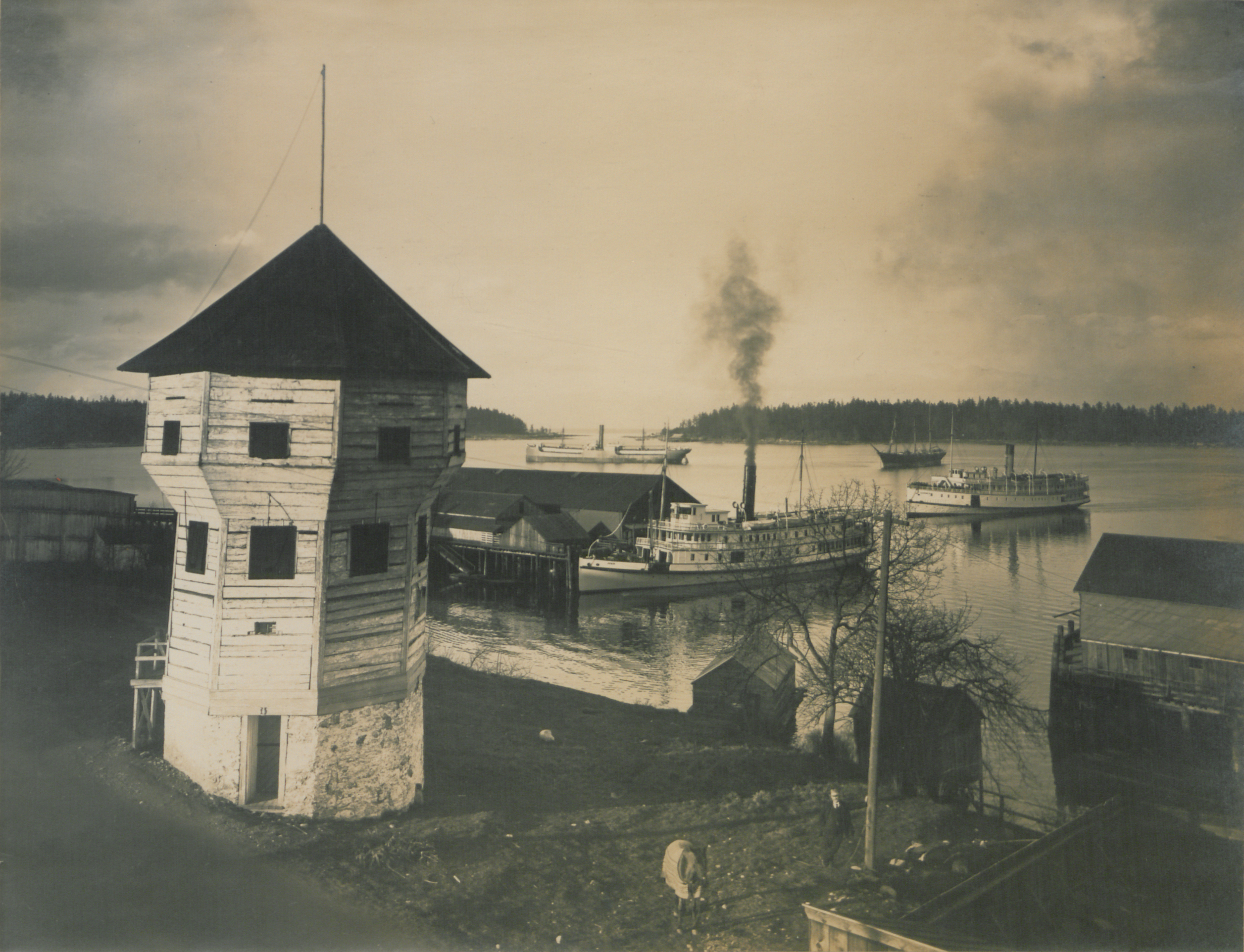 View of Nanaimo Harbor showing the bastion and shipping.